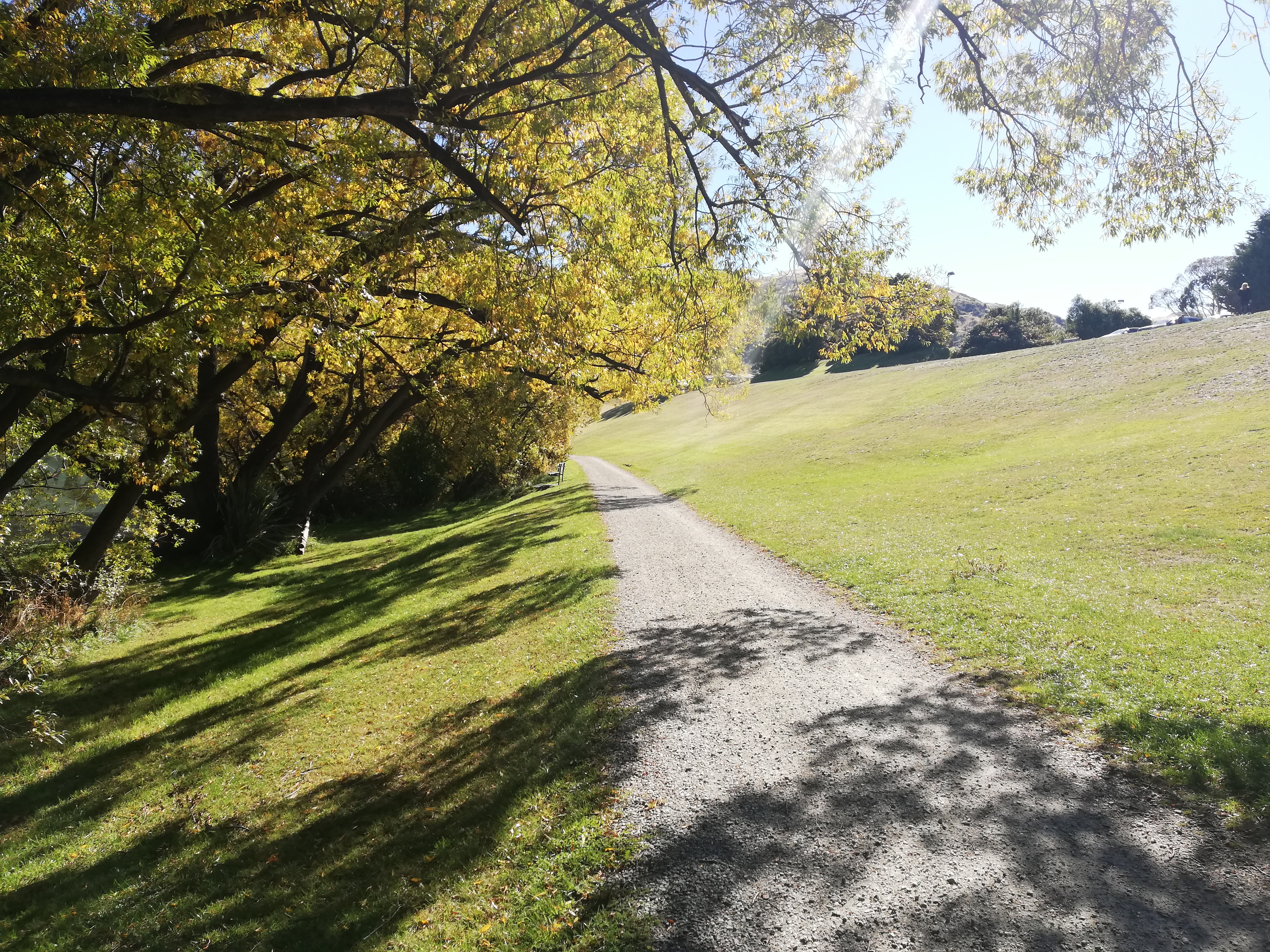 Willow trees in autumn above a section of the Queenstown Trail in Frankton, New Zealand.